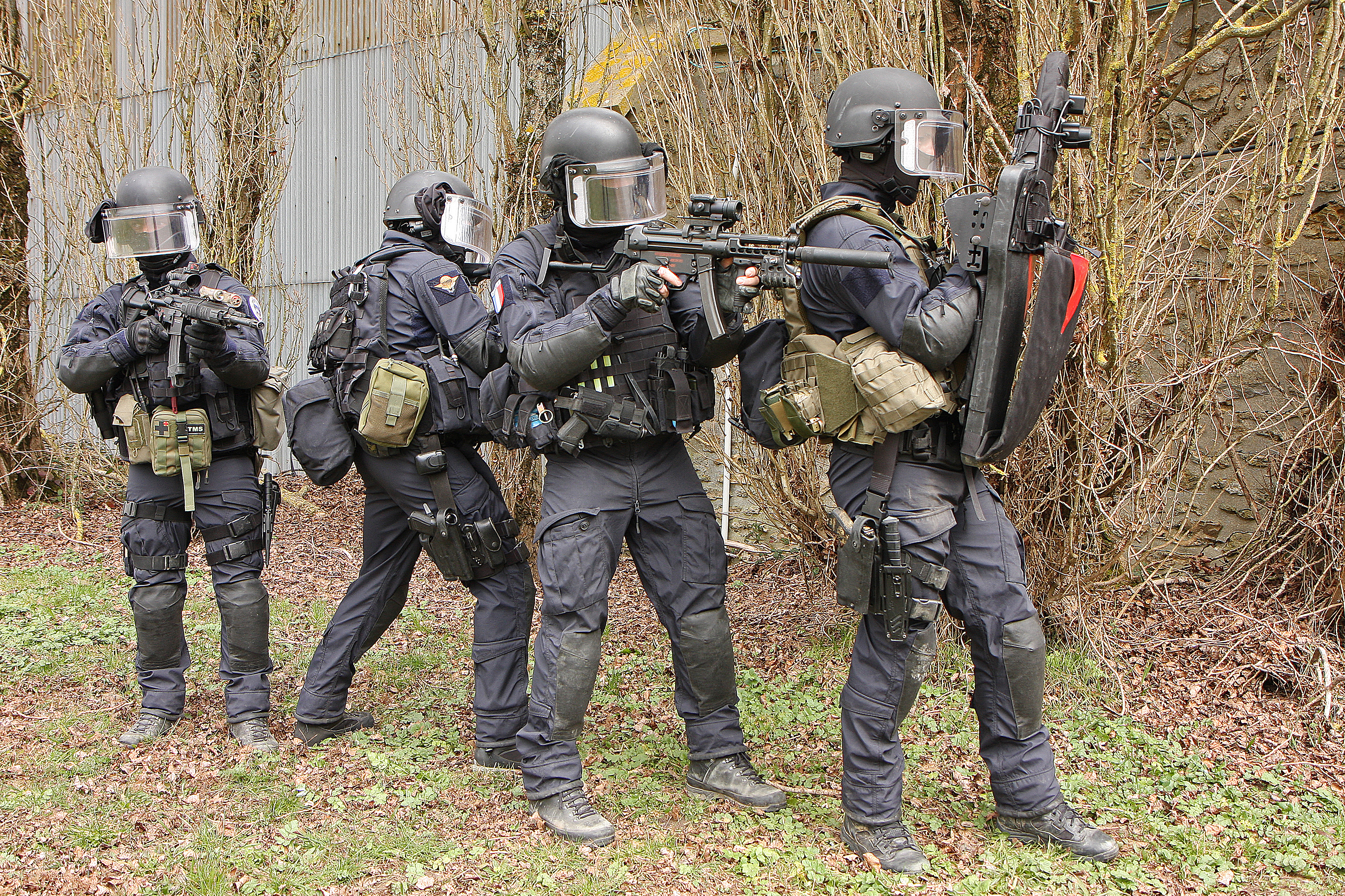 French Gendarmerie GIGN SWAT troopers in assault column2